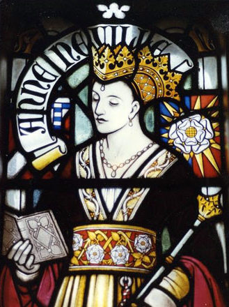 Stained glass image of the King and Queen found in Cardiff Castle, United Kingdom.